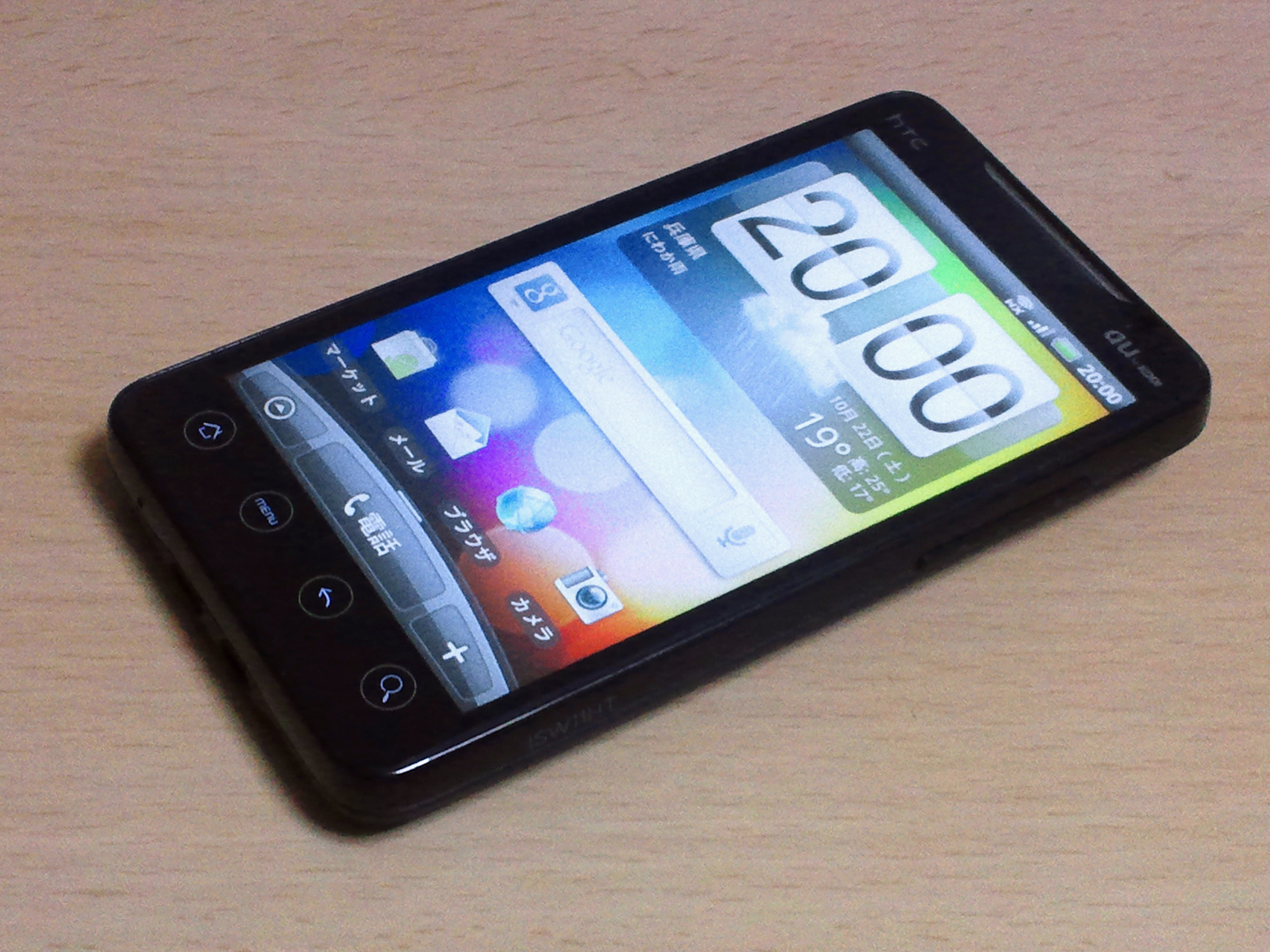 HTC Evo WiMAX（Evo 4G） ISW11HT front